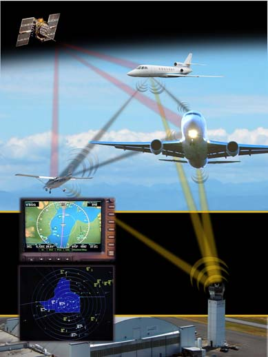 NextGen